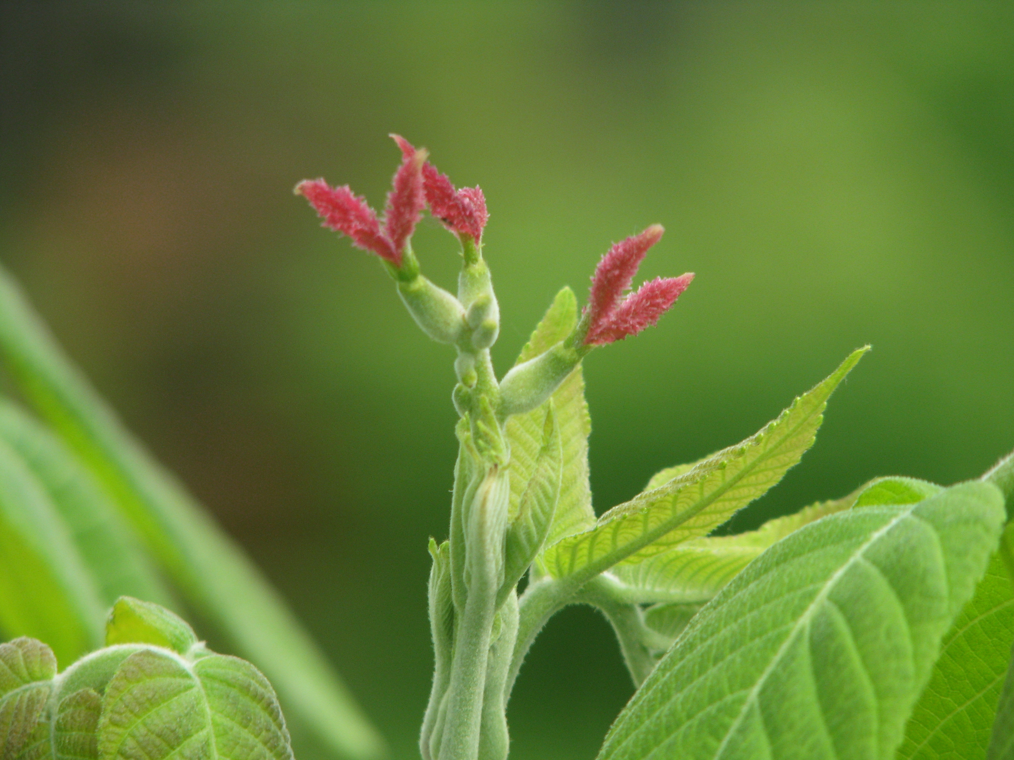 Manchurian walnut (Juglans mandshurica). Female flowers